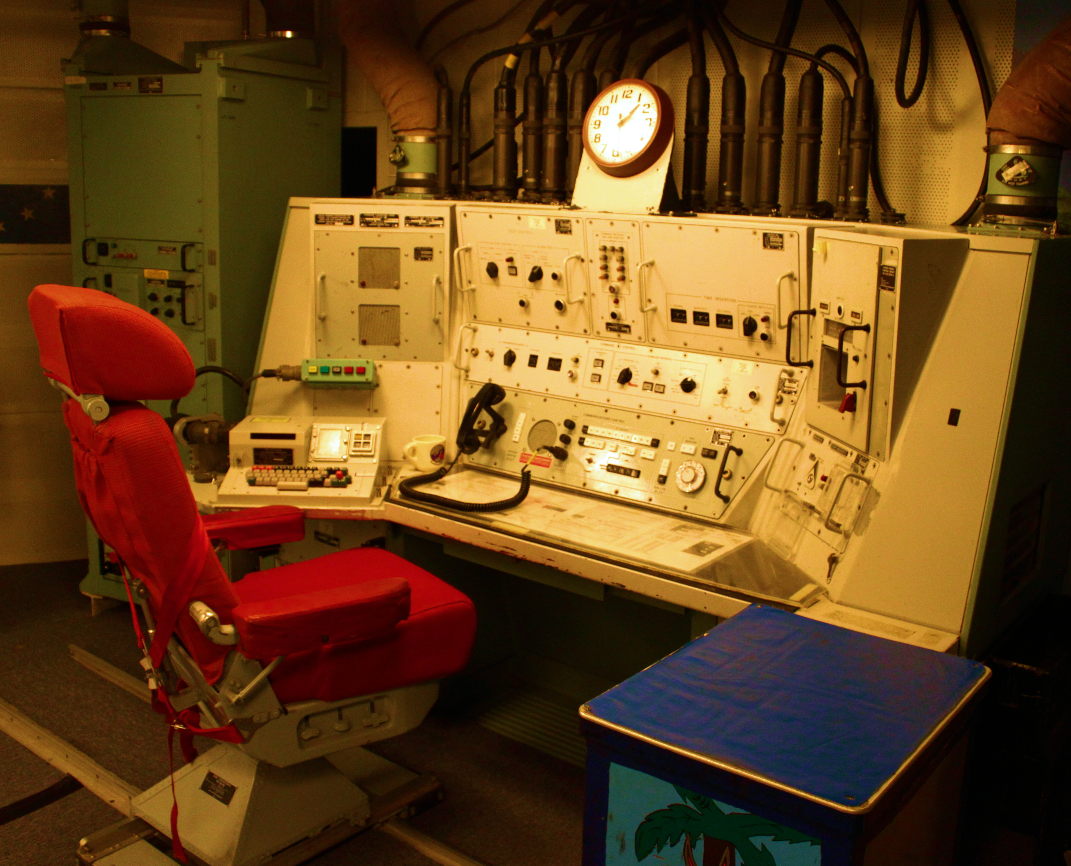 Minuteman III Launch Control ,Oscar Zero Missile Alert Facility at the Ronald Reagan Minuteman Missile Site, Cooperstown, North Dakota (May 2010). Photo by Peter Rimar.